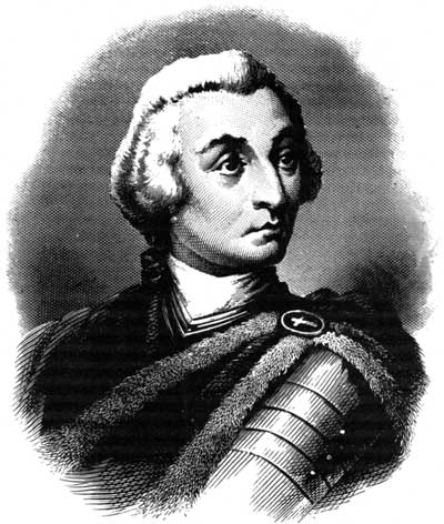 Gen. James E. Oglethorpe, founder of the colony of Georgia, was the leader of the British forces during the climax of the Anglo-Spanish struggle for possession of the southeast.